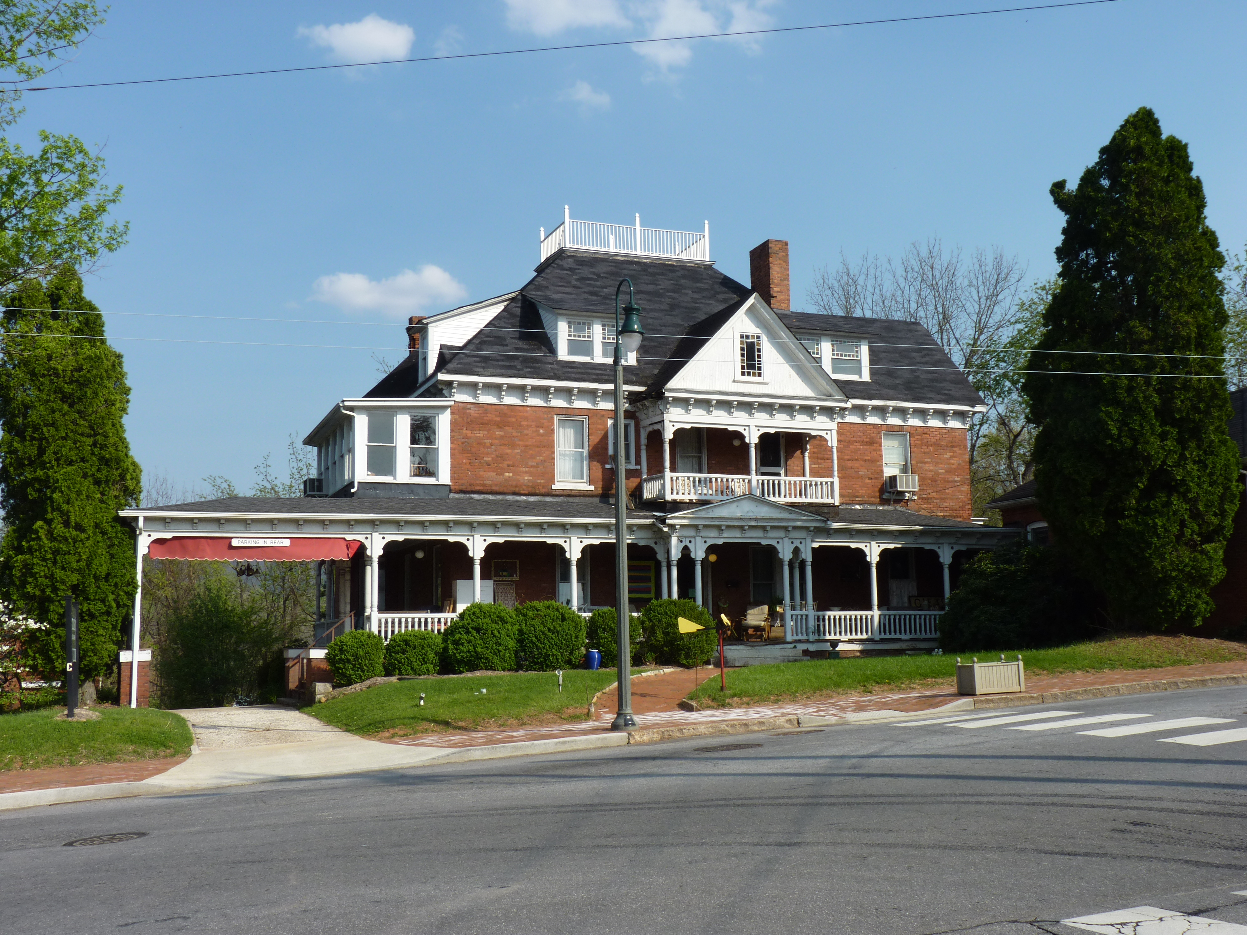 photo of Dr. J. Howell Way House in Waynesville, NC